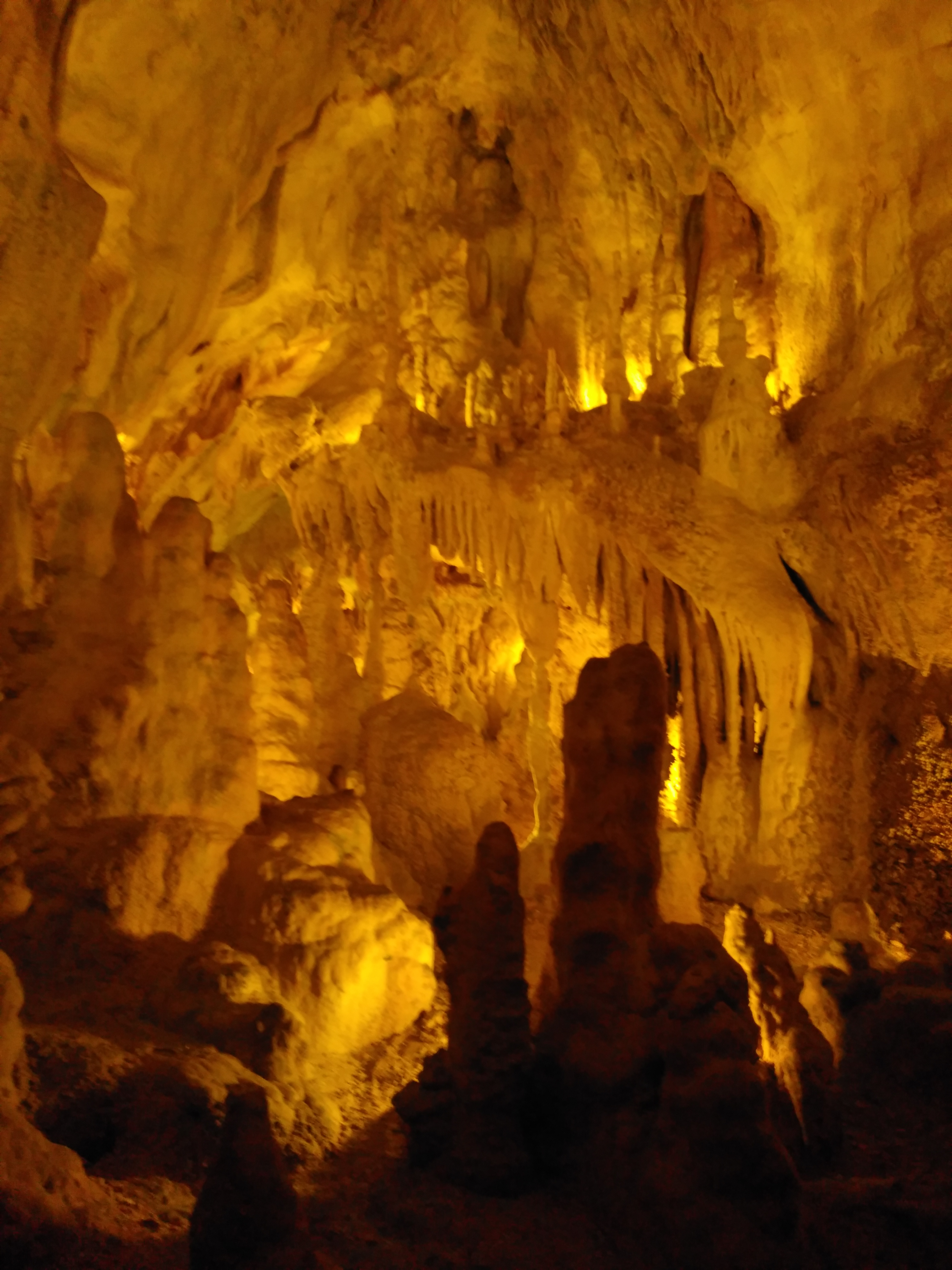 Grutas da Moeda Cave